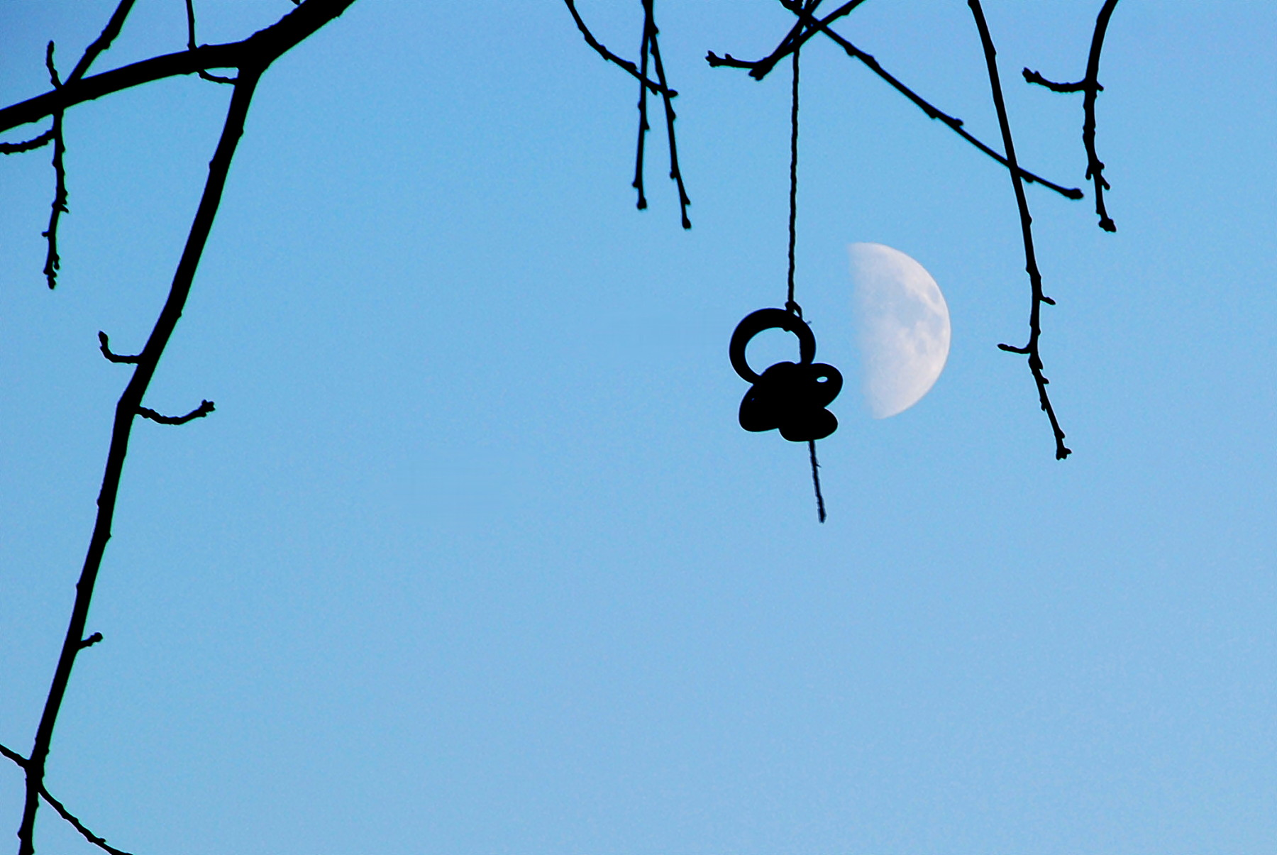 Pacifier Tree. Location: Münster, NRW, Germany